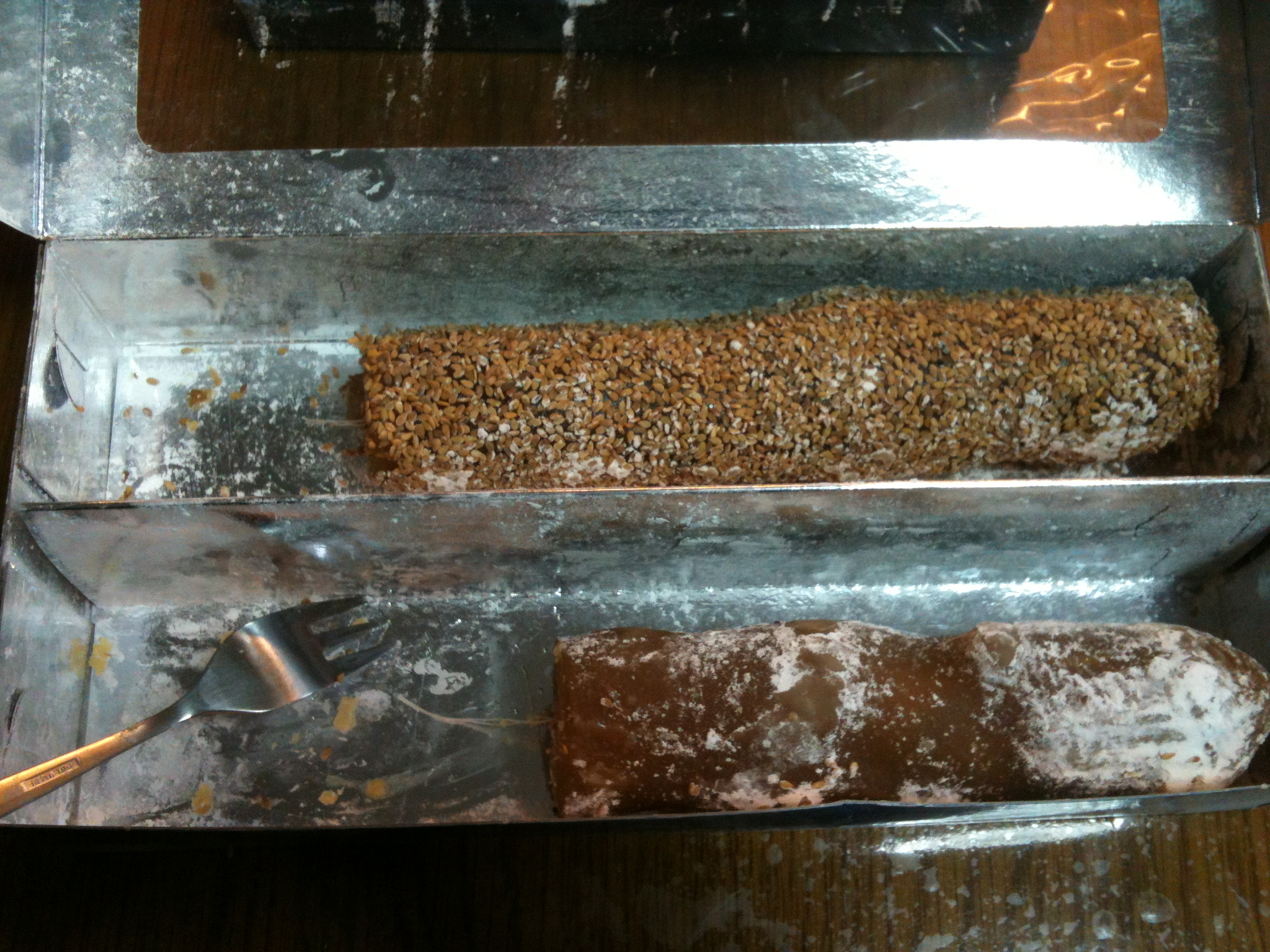 Soutzouk loukoum / or lokum, a sweet from Thrace in two versions, with powdered sugar and sesame